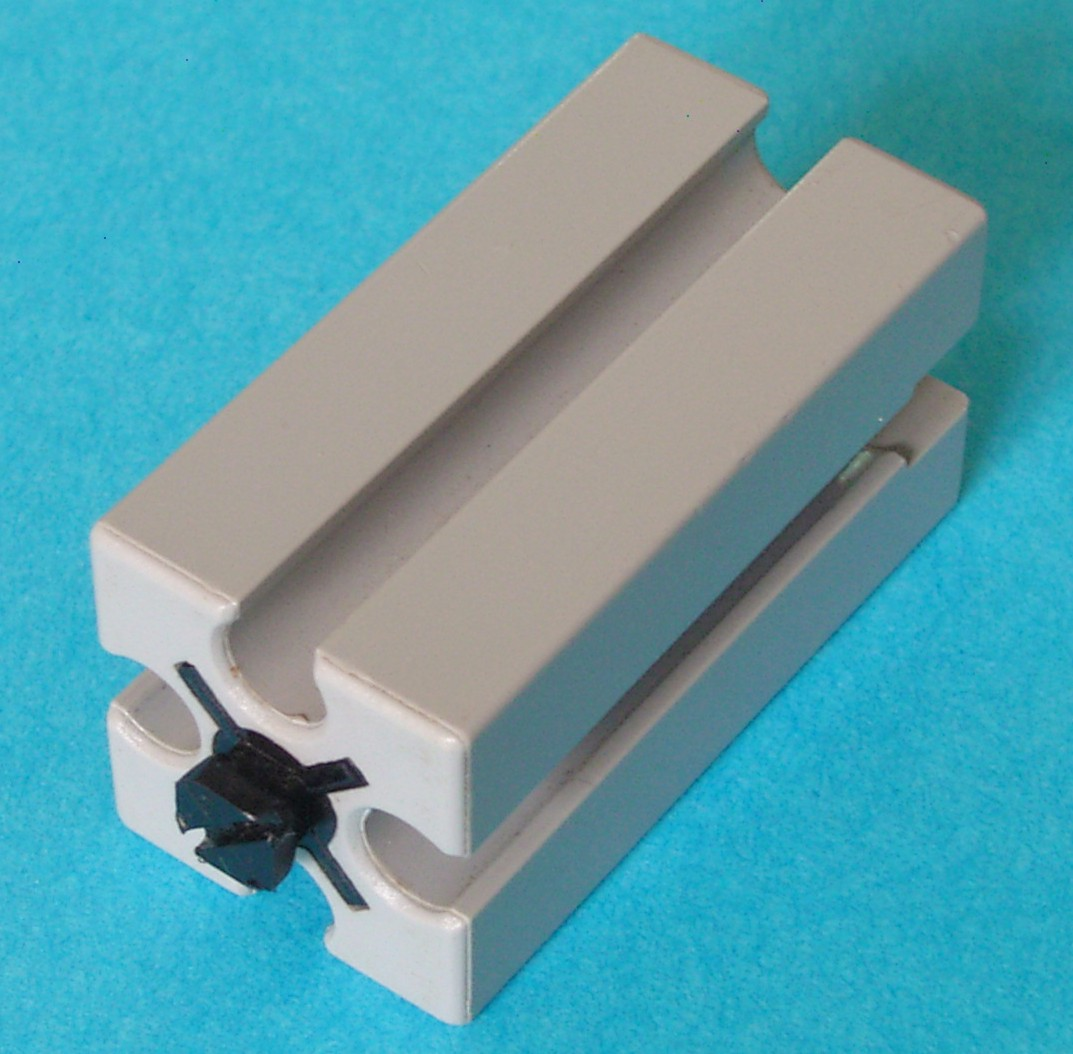 The gray basic fischertechnik brick